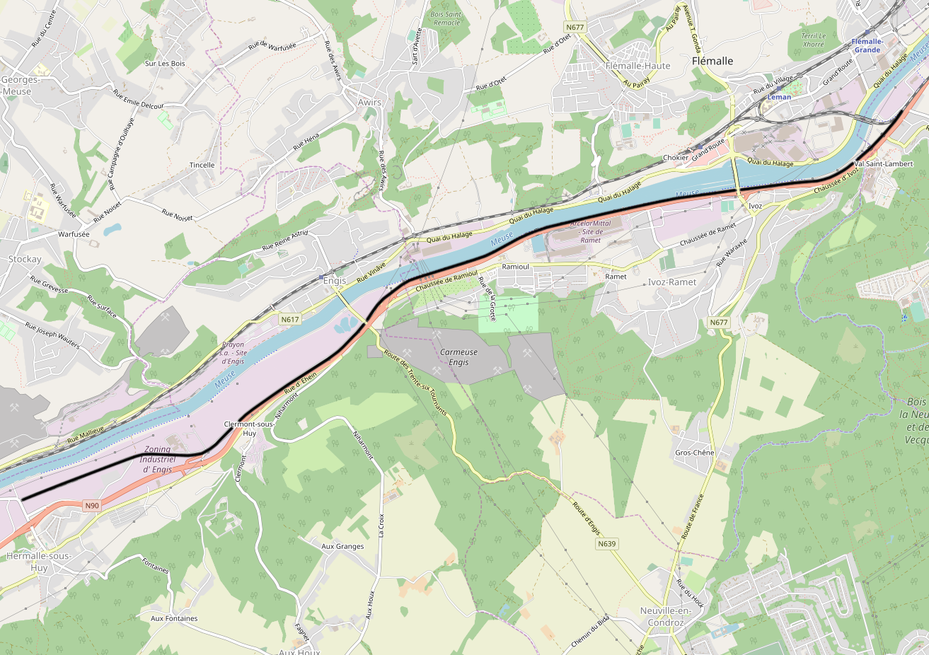 Belgian Railway Line 285, Y Val-Saint-Lambert - Hermalle-sous-Huy